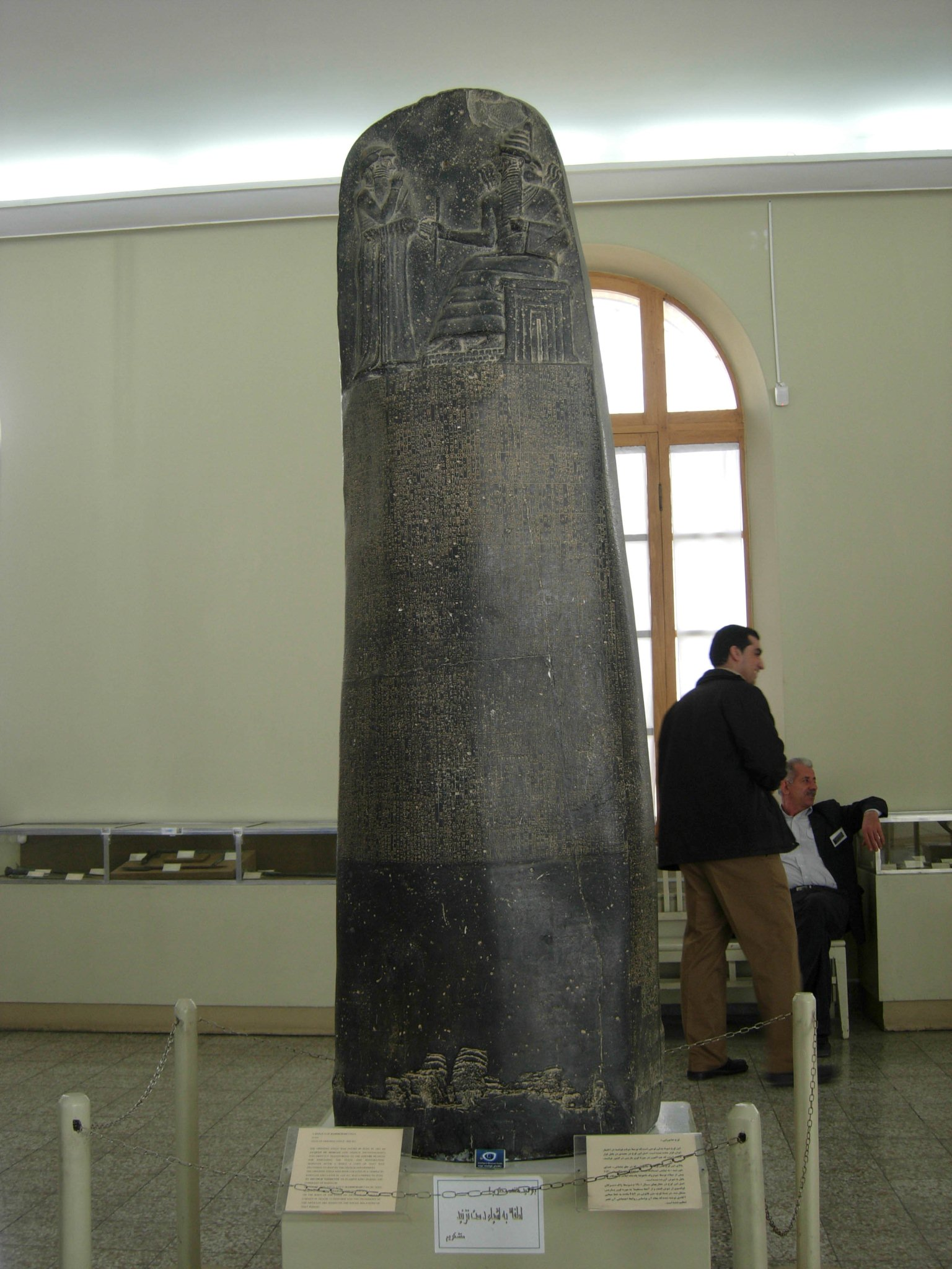 31731-Tehran, Code of Hammurabi (Copy in National Museum of Iran)